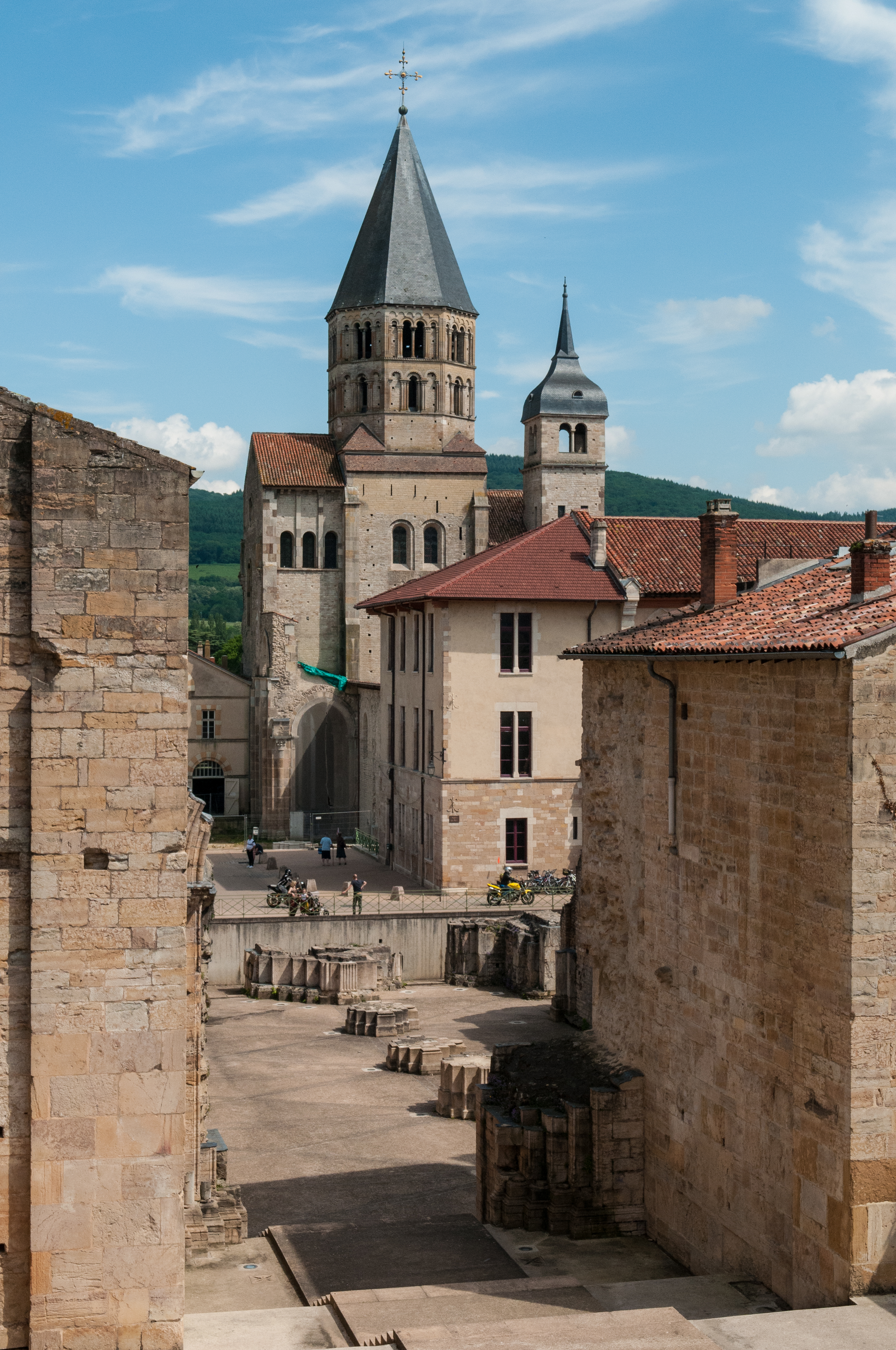 Cluny Abbey (or Cluni, or Clugny) is a Benedictine monastery in Cluny, Saône-et-Loire, France. It was built in the Romanesque style, with three churches built in succession from the 10th to the early 12th centuries. Cluny was founded by William I, Duke of Aquitaine in 910. He nominated Berno as the first Abbot of Cluny, subject only to Pope Sergius III. The Abbey was notable for its stricter adherence to the Rule of St. Benedict and the place where the Benedictine Order was formed, whereby Cluny became acknowledged as the leader of western monasticism. The establishment of the Benedictine order was a keystone to the stability of European society that was achieved in the 11th century. In 1790 during the French Revolution, the abbey was sacked and mostly destroyed. Only a small part of the original remains. Dating around 1334, the abbots of Cluny had a townhouse in Paris known as the Hôtel de Cluny, which has been a public museum since 1833. Apart from the name, it no longer possesses anything originally connected with Cluny. Cluny Abbey. (2012, May 15). In Wikipedia, The Free Encyclopedia. Retrieved 08:00, May 31, 2012, from